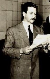 Pablo Lagarde-actor